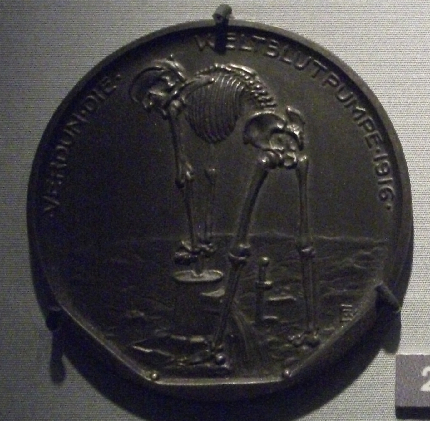 British Museum exhibition: "The other side of the medal: how Germany saw the First World War", 9 May – 23 November 2014